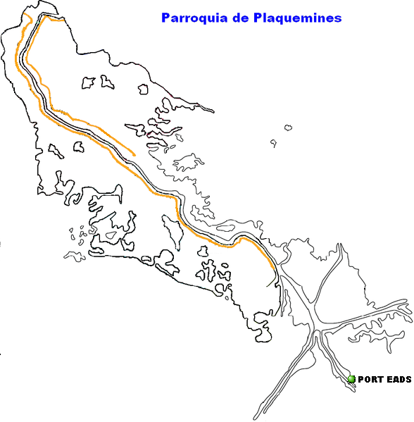 Port Eads locator map